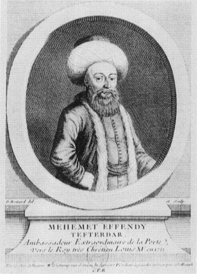 Mehmed Effendi